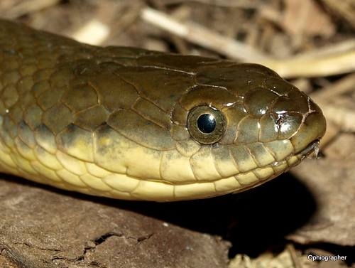 Once called as Common Water snake, this Olive keelback is no longer common. It's become a rare sighting without an appropriate reason for disappearance. Now the name "Common Water snake" is synonym with Checkered keelback. Atretium schistosum. This snap, taken in Hyderabad, India, was of a specimen that was rescued by the Friends of Snakes club and was scheduled for release. Olive keelback generally feeds on frogs, crabs, fishes..and lives in water.